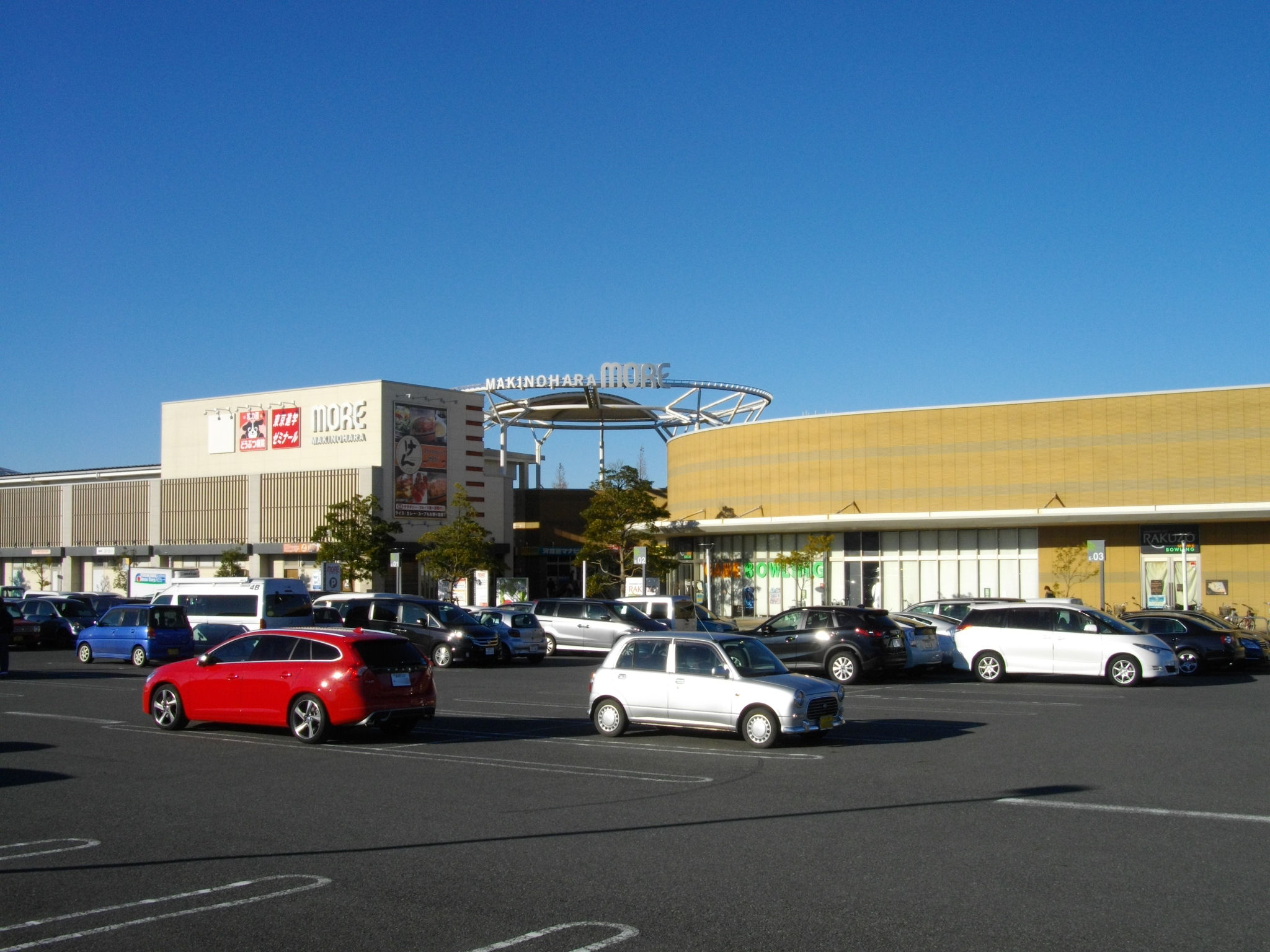 Makinohara MORE